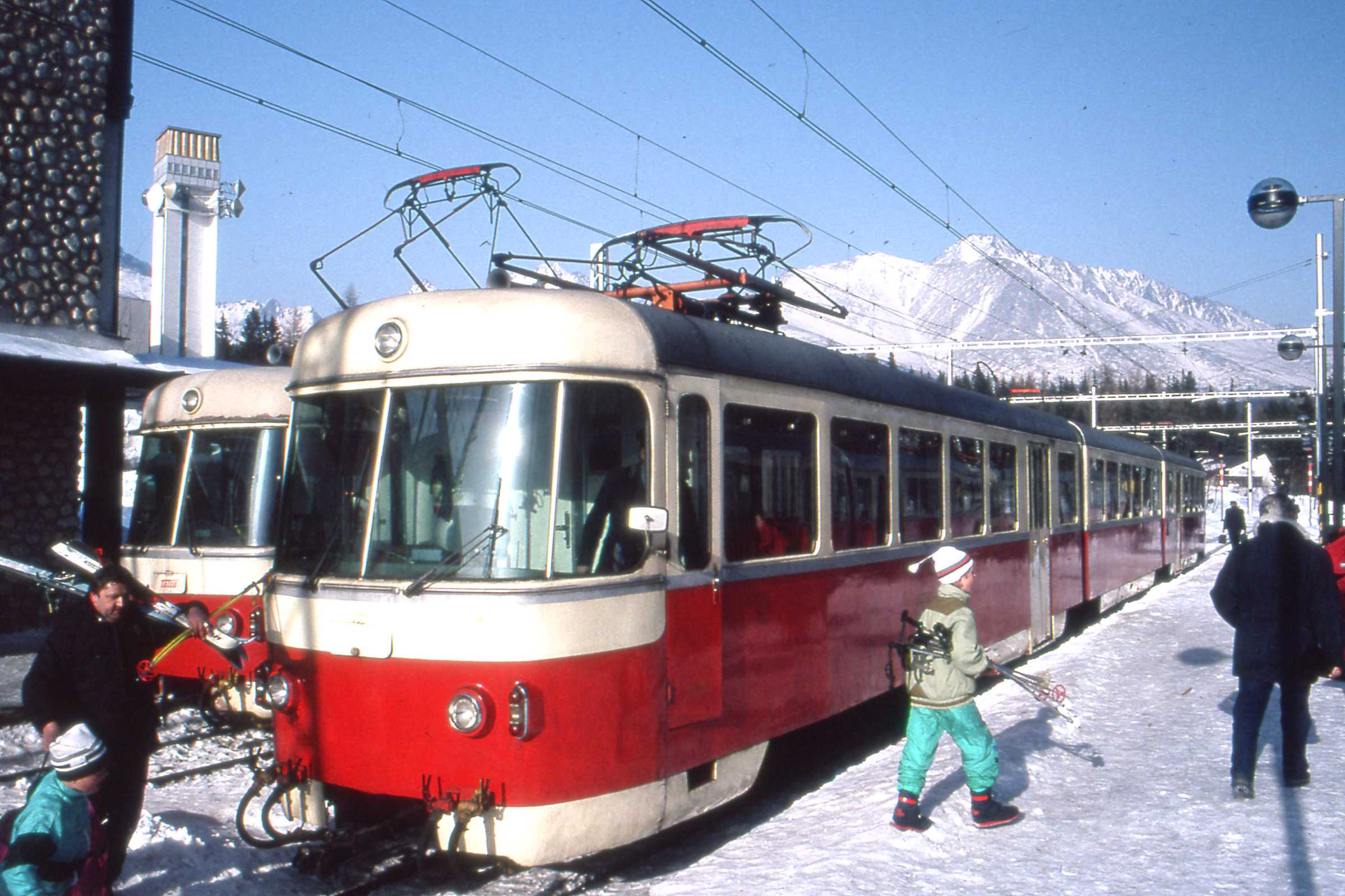 Electric multiple unit 420.95 in train station Štrbské Pleso